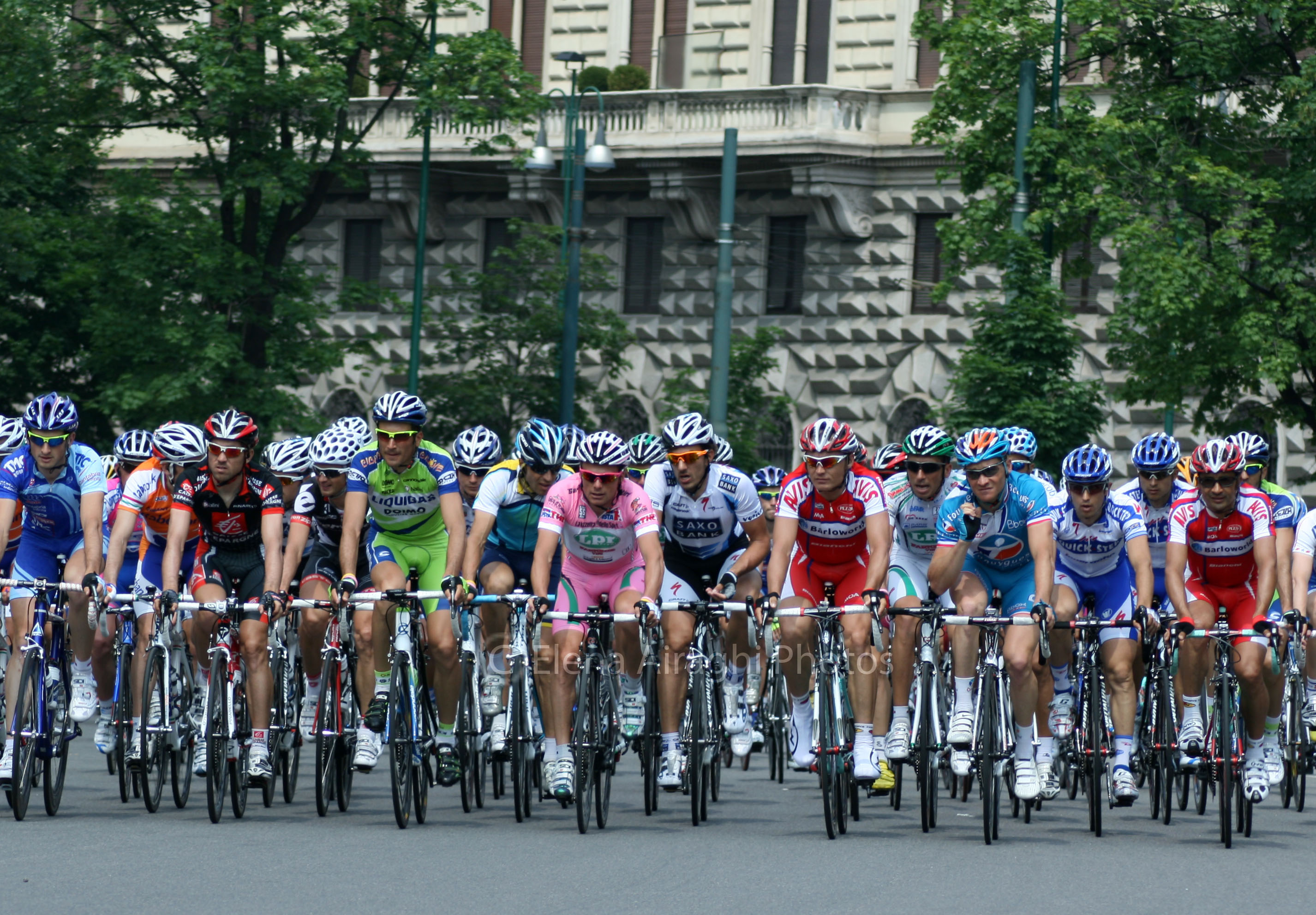 Giro d'Italia 2009 Cyclists during 9th stage in Milan